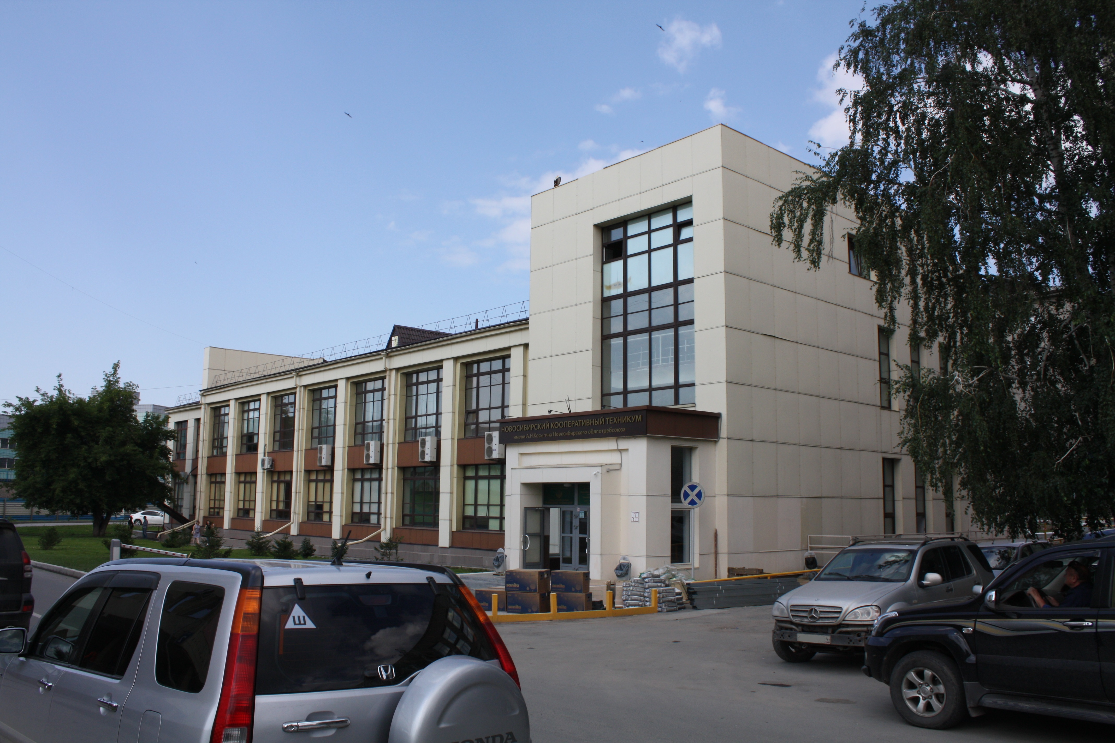 Kosygin Novosibirsk Cooperative Technical School, Zheleznodorozhny City District, Novosibirsk.